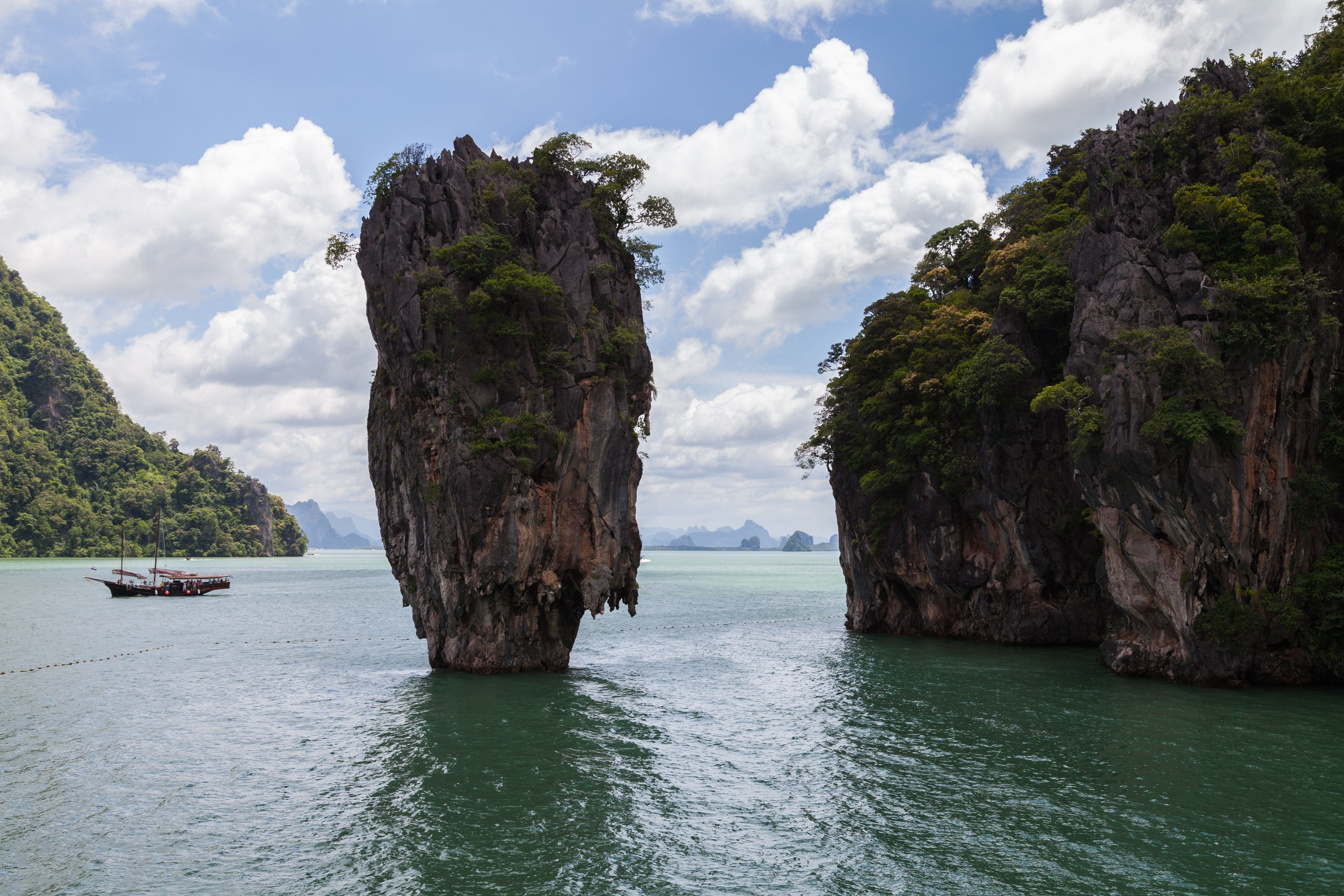 Tapu Island, Phuket, Thailand